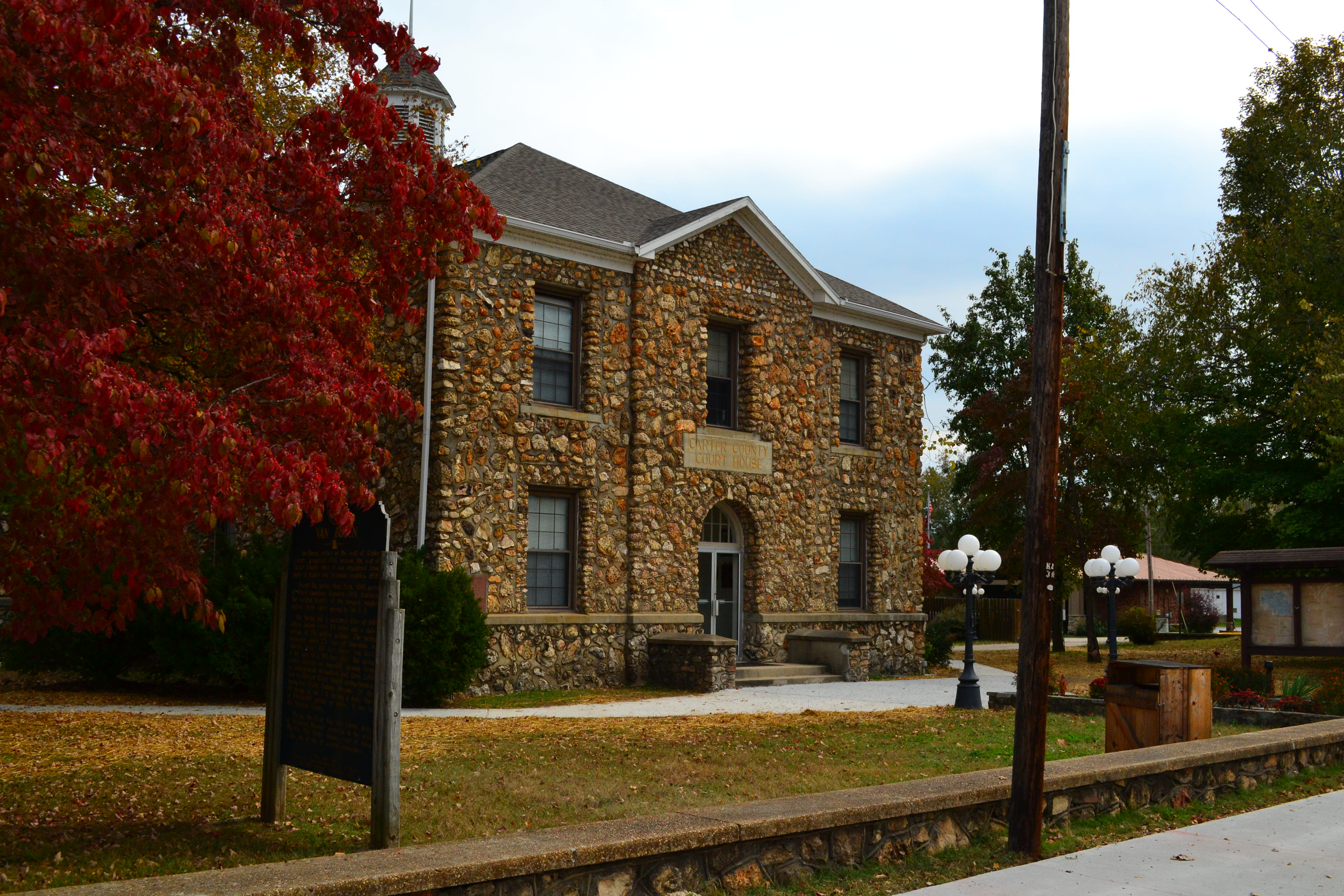 Courthouse for Carter County, Missouri in Van Burren, Missouri